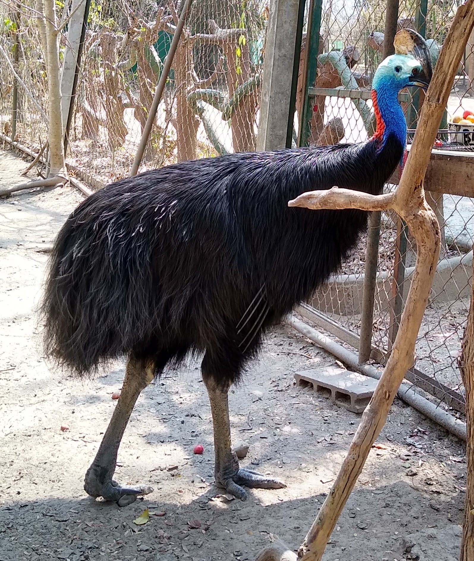 Cassowary at the Wildlife Rescue Centre and Elephant Refuge operated by Wildlife Friends Foundation Thailand (WFFT).